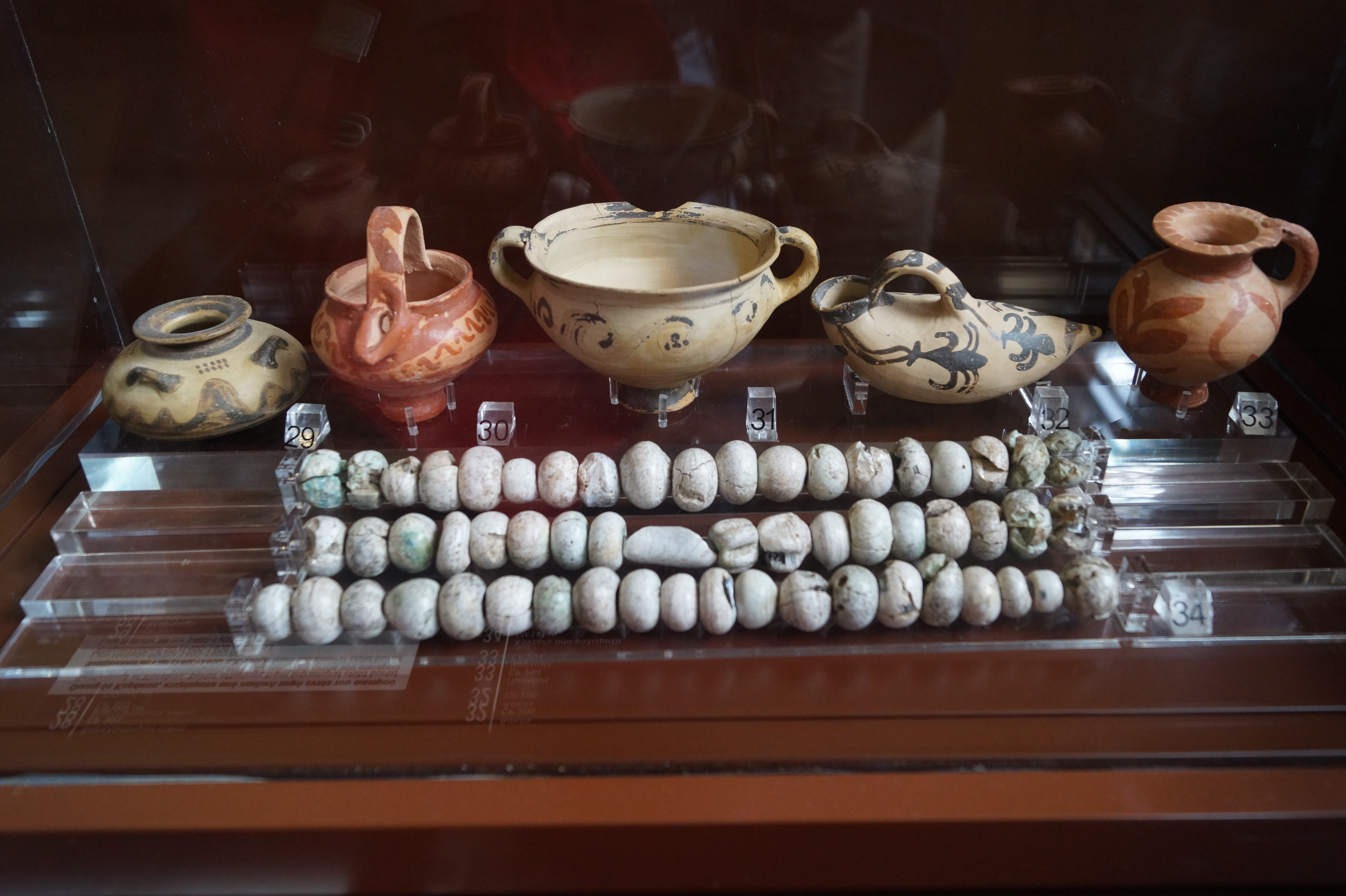 Archaeological Museum of Corinth, Greece: Late Helladic findings from the childrens grave I of Korakou (LH II B, 1460–1400 BC).